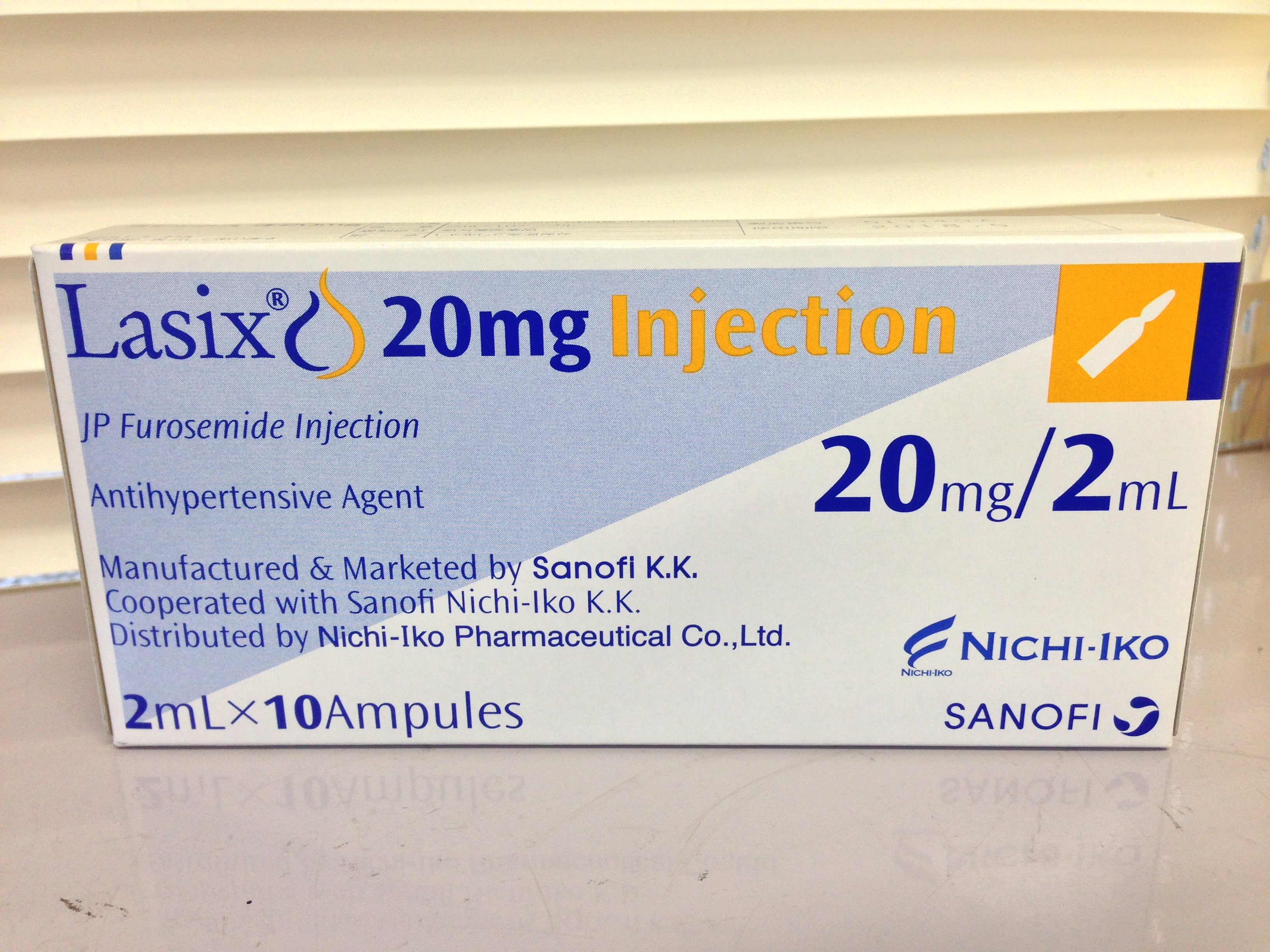 Furosemide